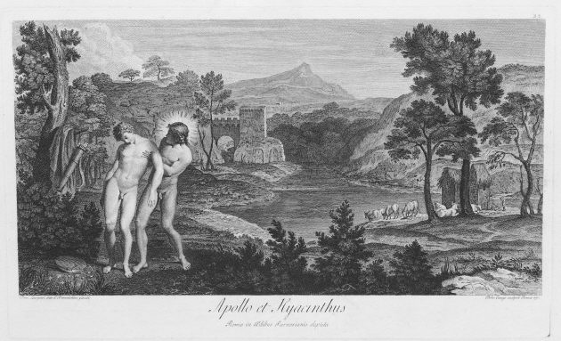 Apollo and Hyacinth. Original painted by domenichino. engraved by Domenico Cunego, Rome, 1771. (or something like that)